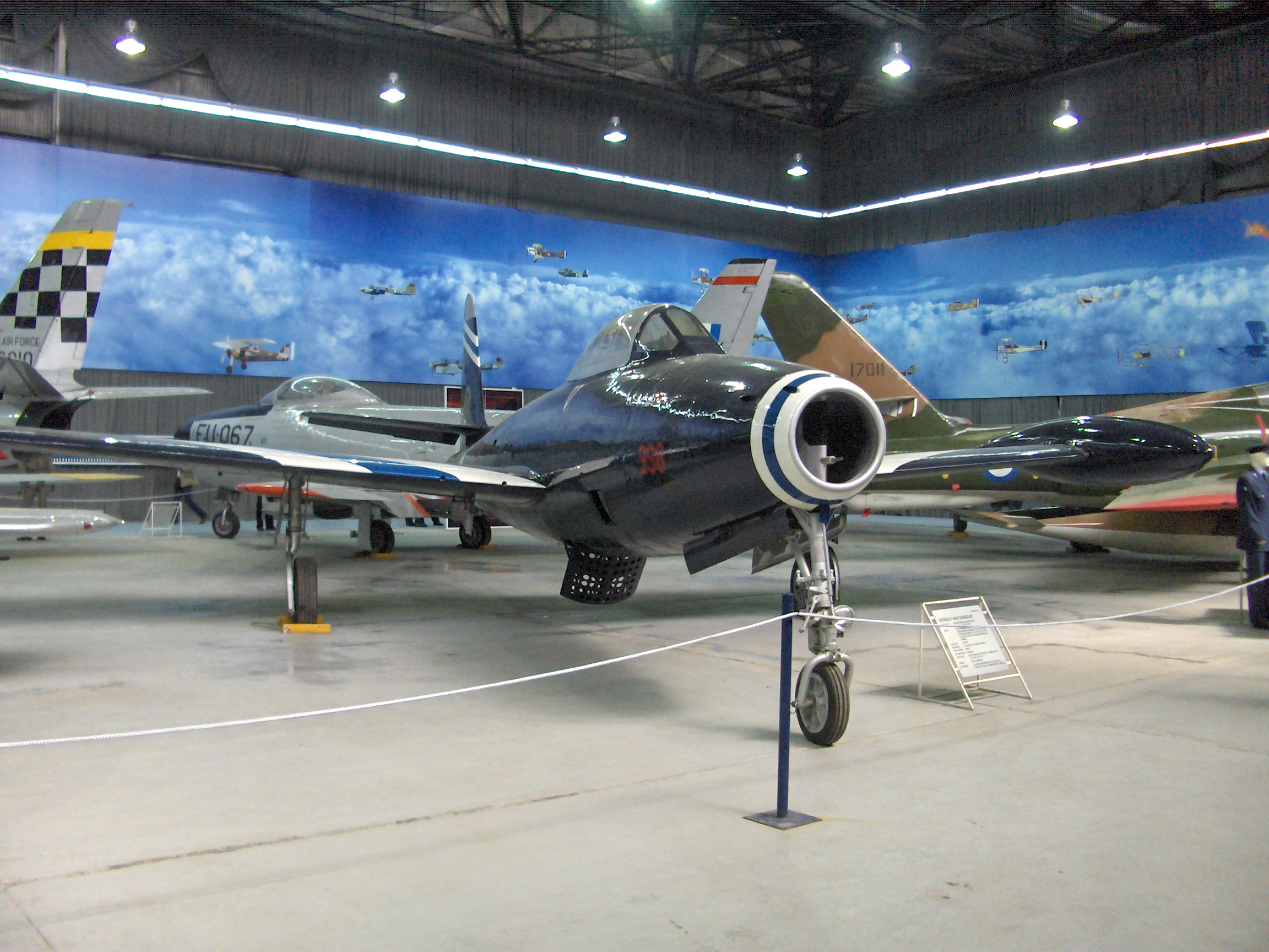 Exhibit at the Hellenic Air Force Museum at Dekelia (Tatoi), Athens, Greece.